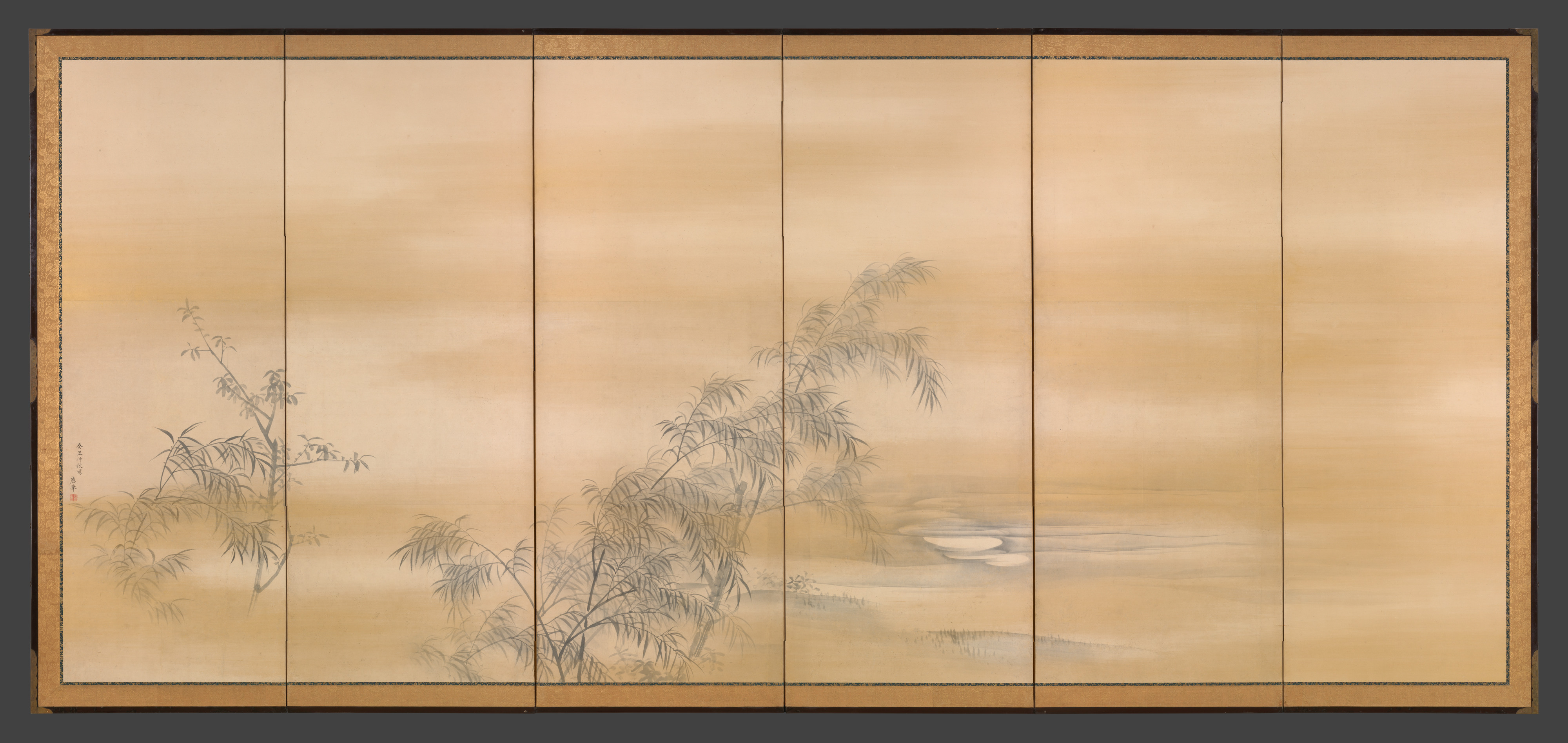 Japan; Screens; Screens